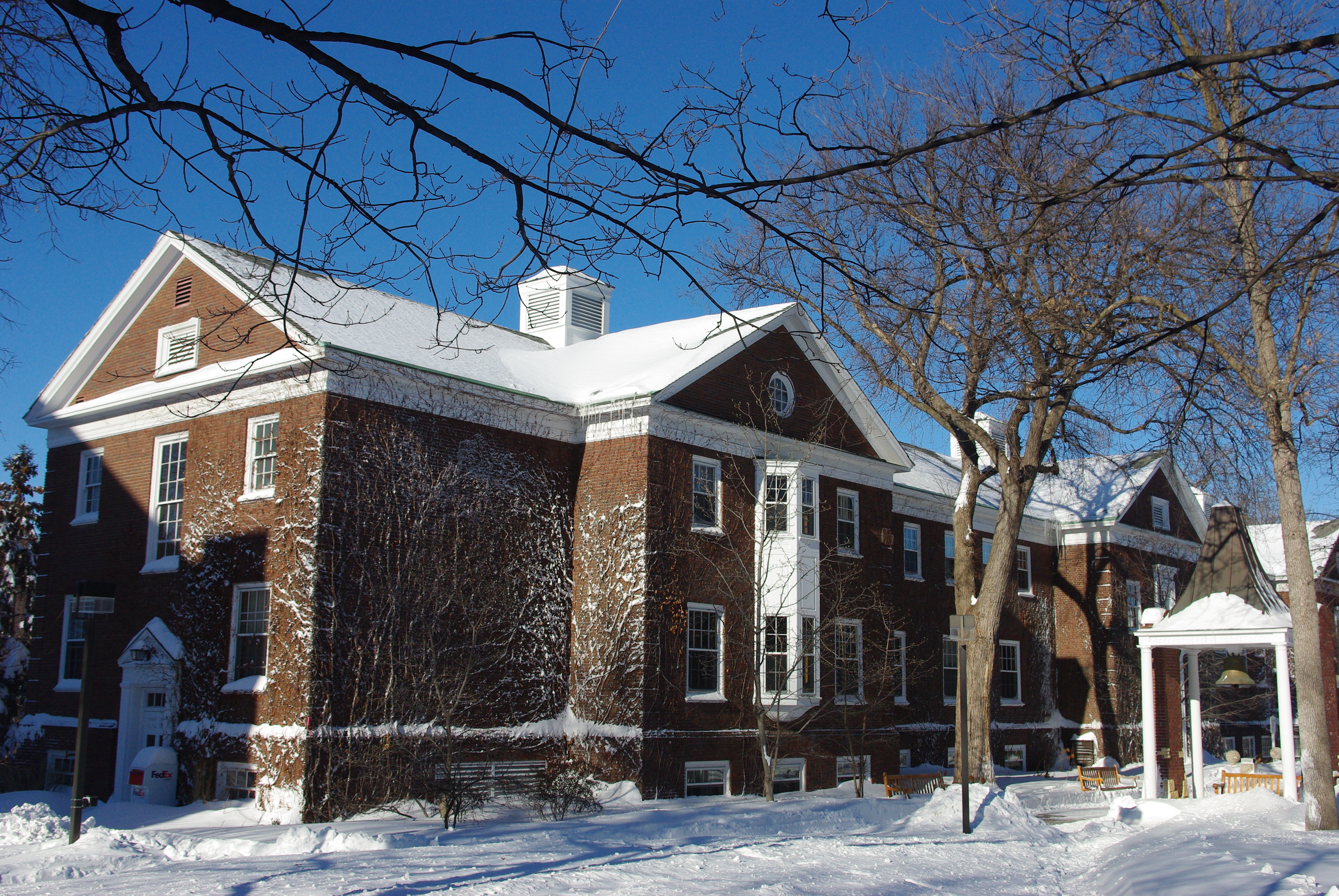 Weyerhauser hall at Macalester College